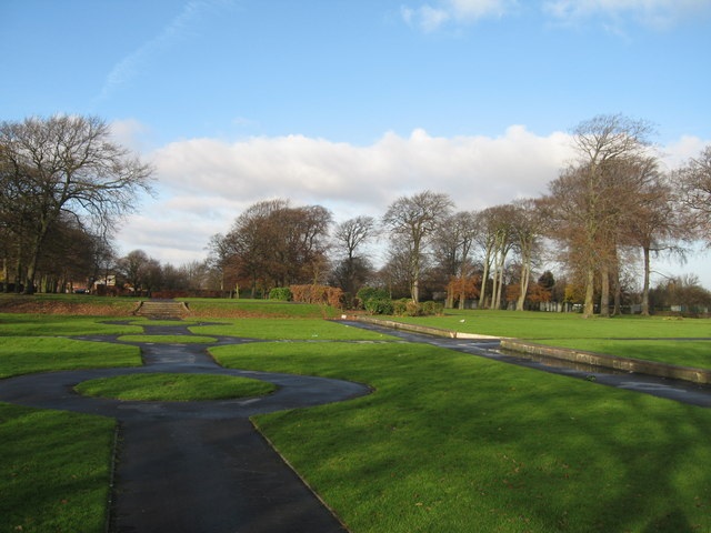 Norris Green Park. The name Norris has been associated with Liverpool since the Norman times, mainly linked with Speke Hall. The park houses the ruin of Norris Green, the original name of the grand mansion built by the Norris family 624637 in the fields and pastureland near West Derby. The park was created from the gardens and grounds of the mansion, though you would be hard pushed to find flowers other than weeds there today. Norris Green gave its name to the vast, featureless council housing estate built to ease the housing crisis of the 1920's on land given to the city by Lord Derby of Knowsley Hall. He donated the land on the provision that no public houses were to be built within the estate.